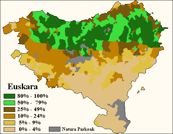 Linguistic map of Basque Country Natura parkeak: Natural parks